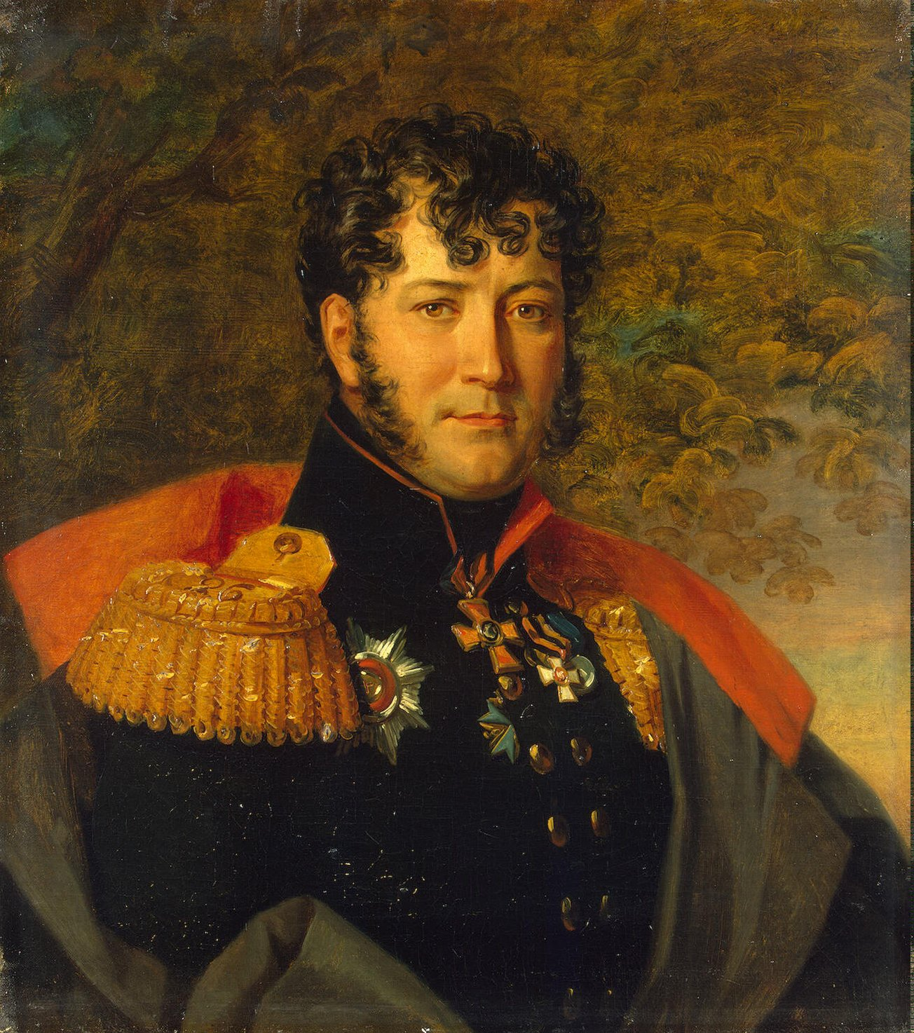 Gogel, Fyodor Grigoryevich (01.03.1775 – 17.04.1827) Russian lieutenant general.